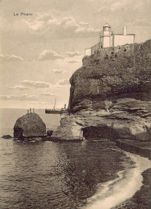 Postcard of Trebizond (Trabzon, Turkey)